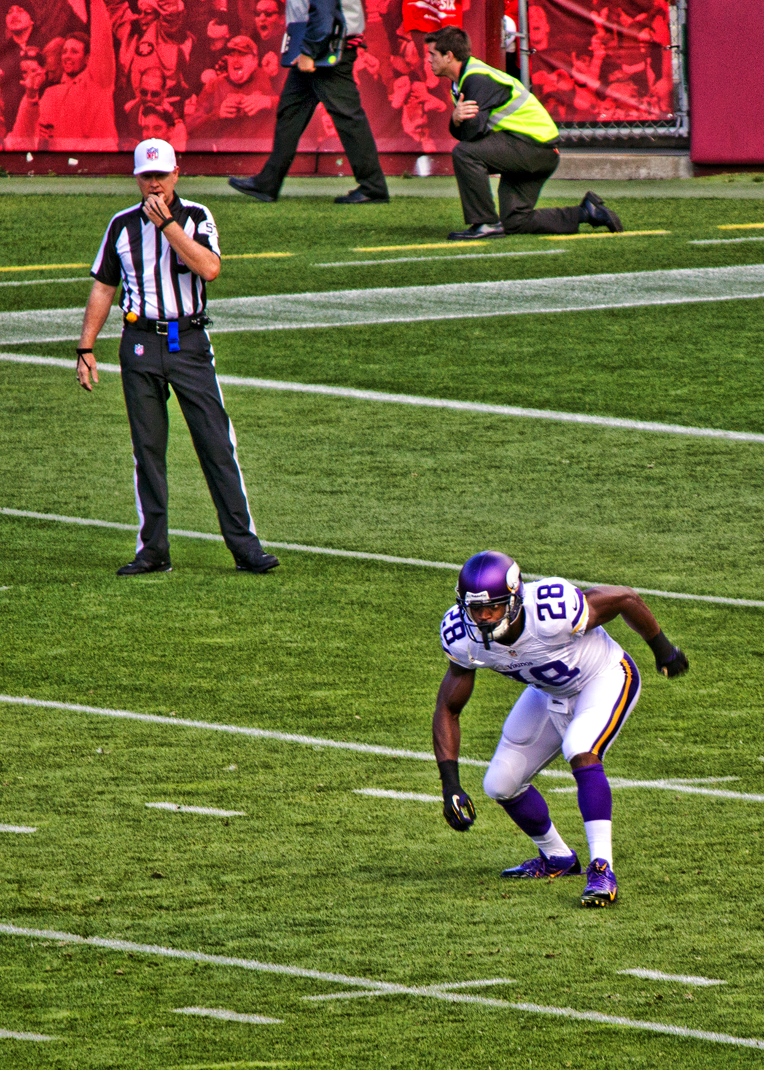 Minnesota Vikings RB Adrian Peterson during preseason's week 3 match vs. San Francisco